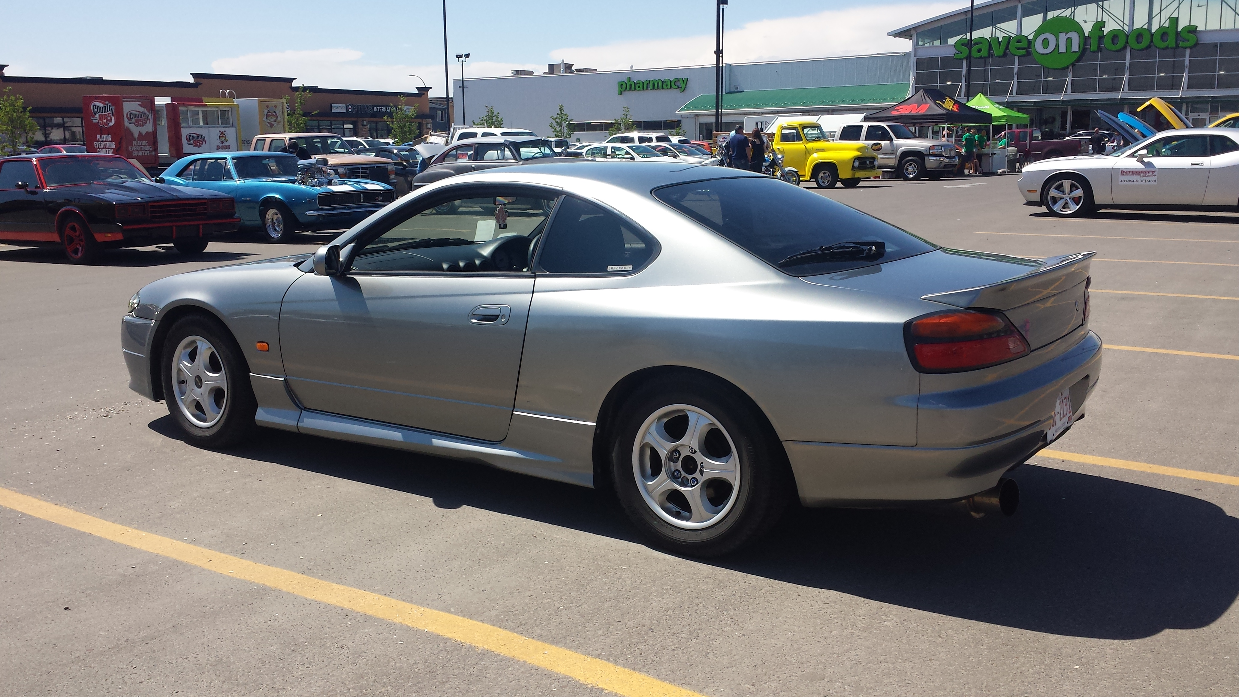 S15 generation Nissan Silvia imported from Japan.